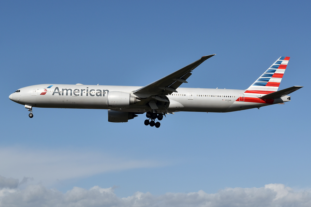 American Airlines, N720AN, Boeing 777-323 ER